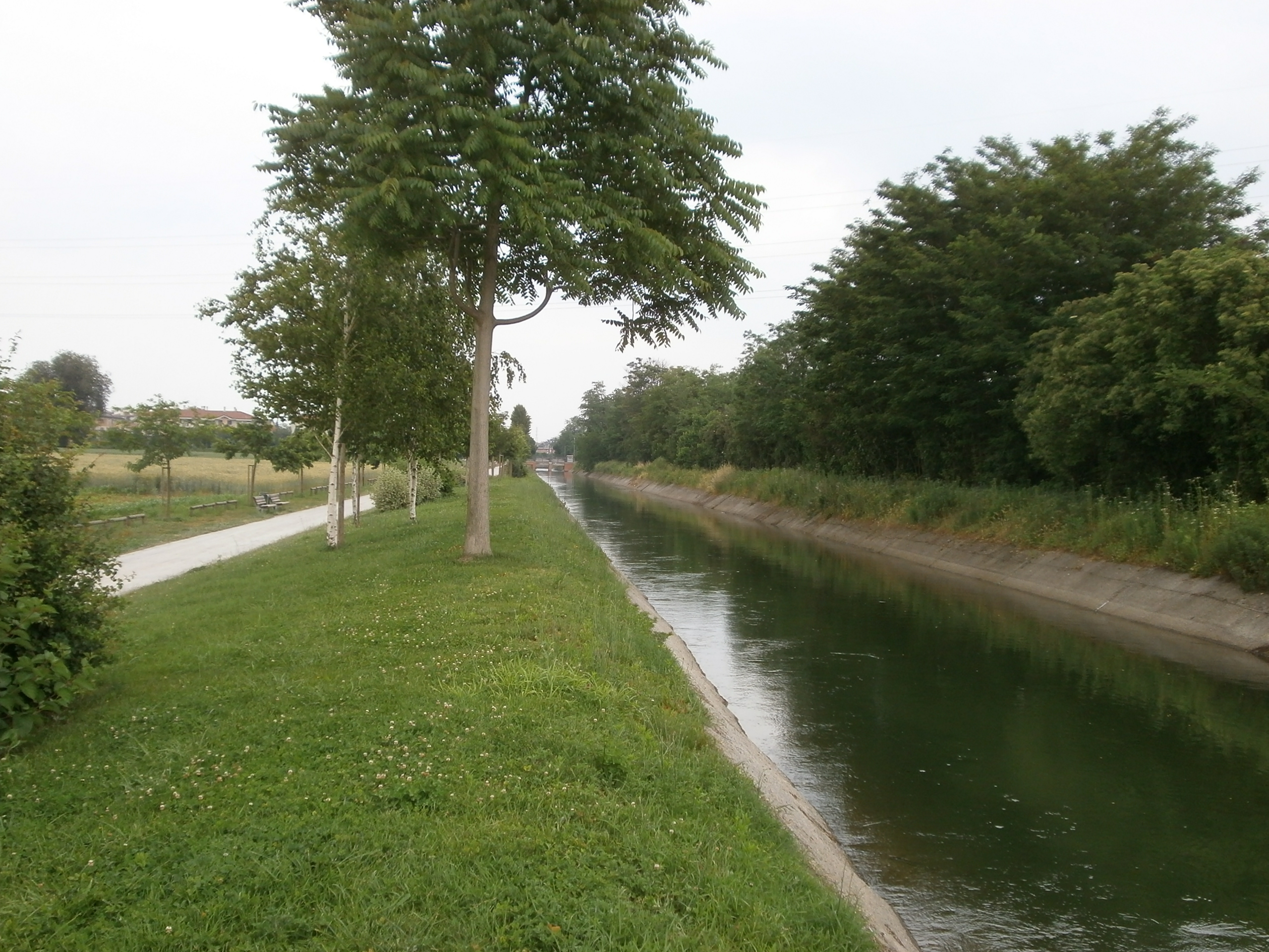 villoresi canal - Paderno Dugnano/Nova Milanese